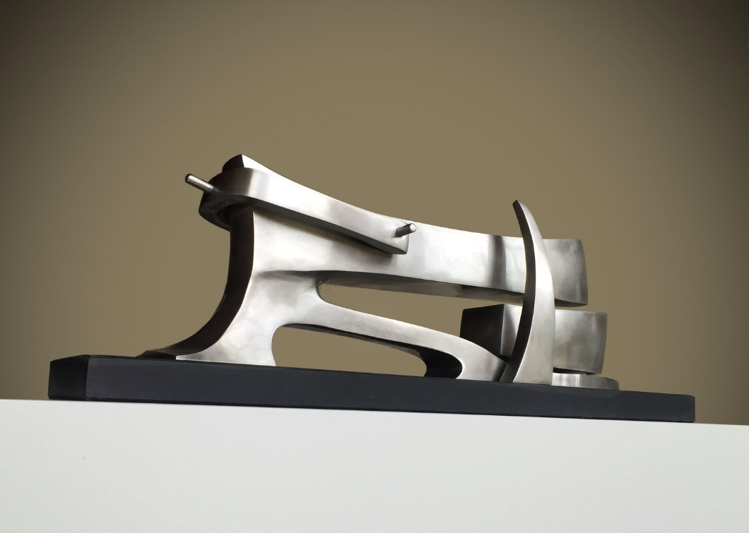 Voyager